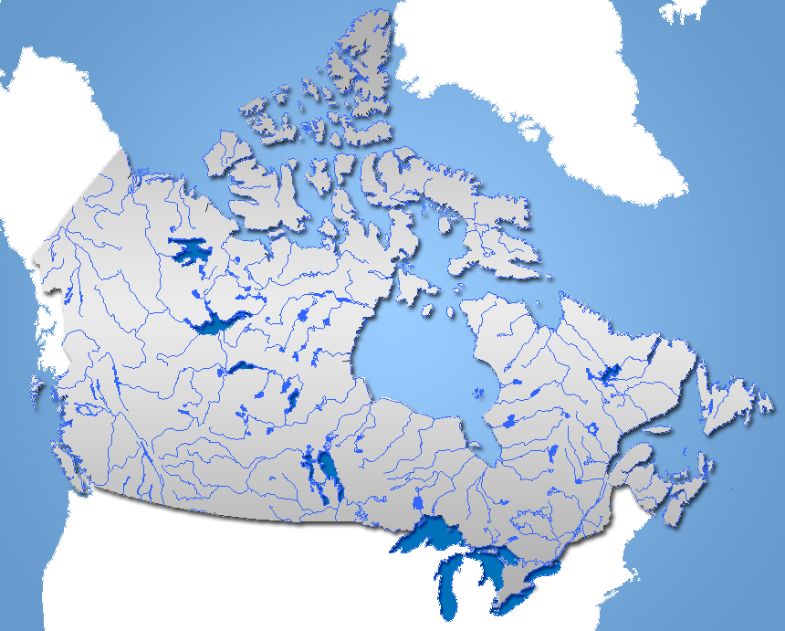 Major Hidrographic Network of Canada